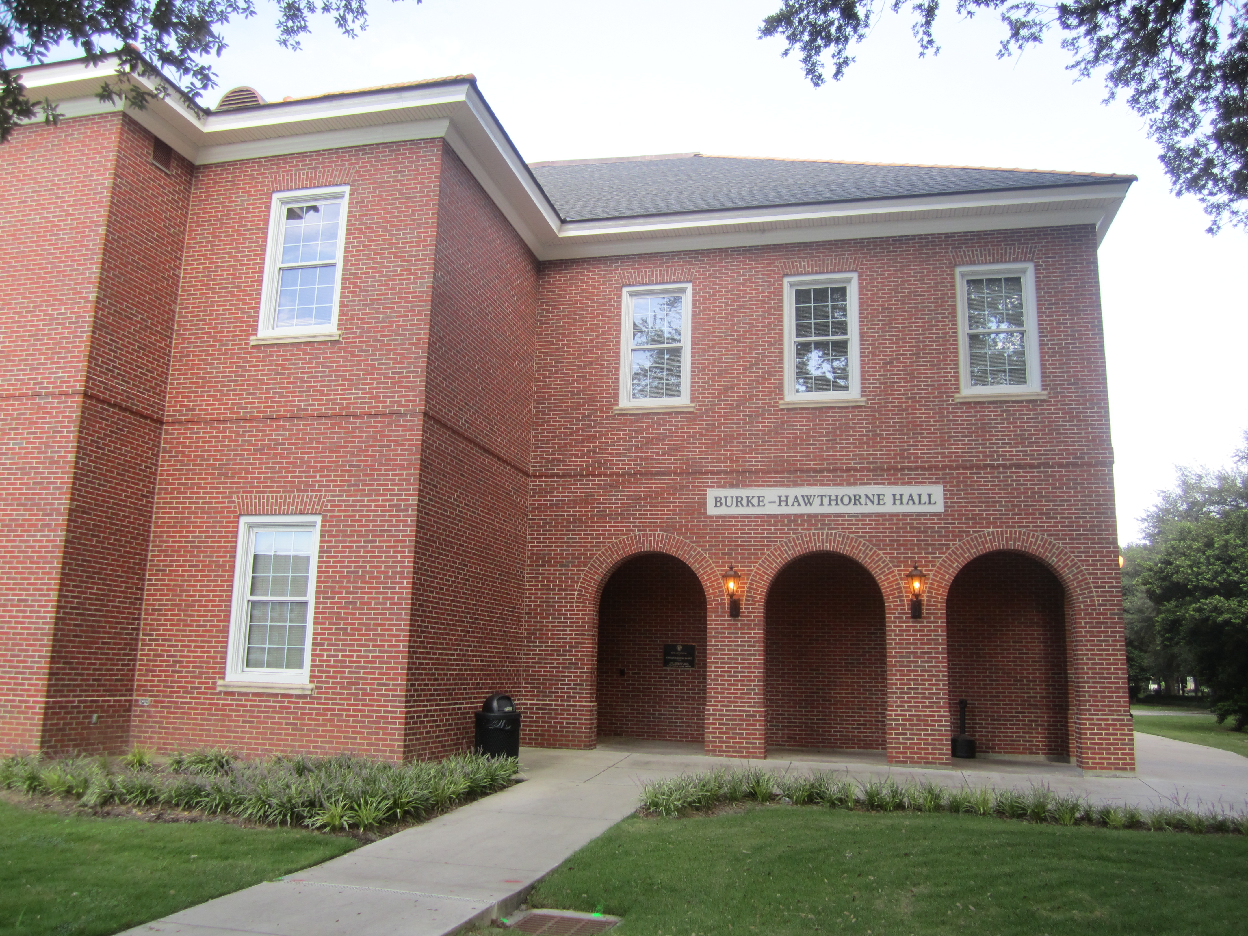 I took photo of Burke-Hawthorne Hall (communications) at ULL in Lafayette, LA, using Canon camera.